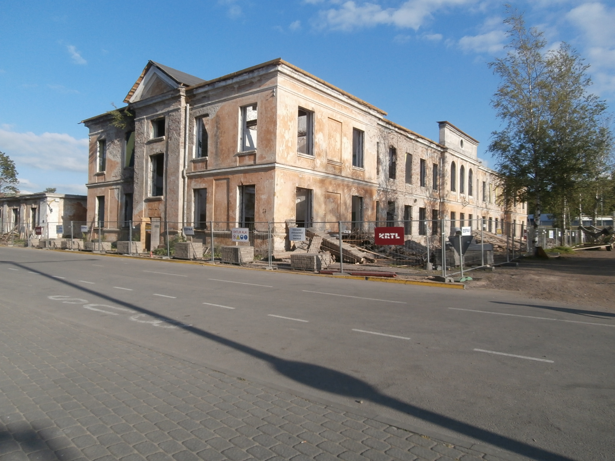 Buildings under reconstruction, Vesilennuki 1, Tallinn 10 July 2017